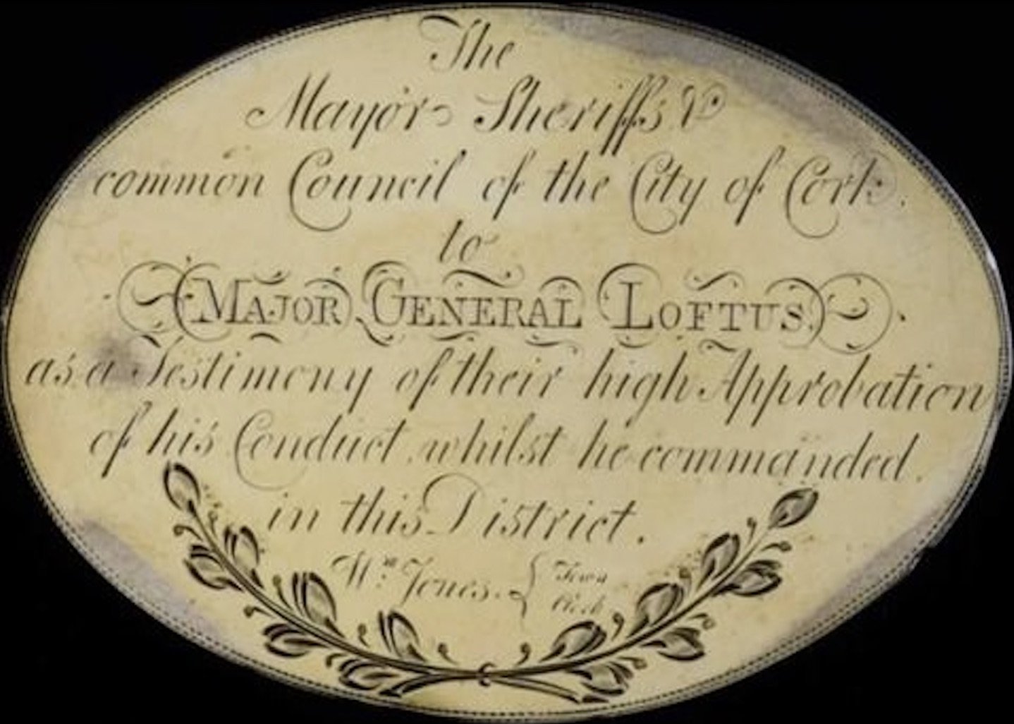 The keys of Cork City were presented to General William Loftus in 1798